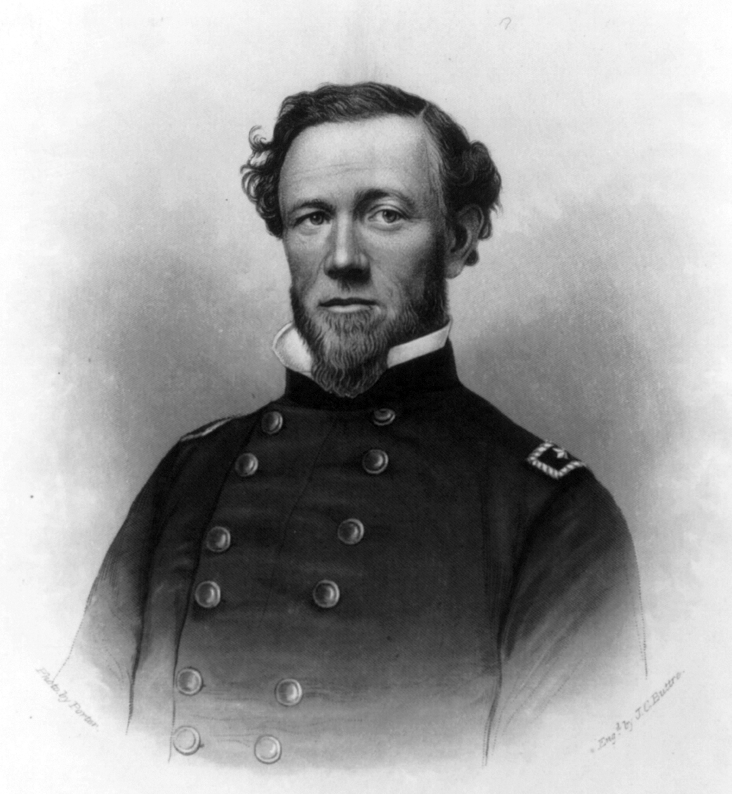 John J. Reynolds, American general during the Civil War